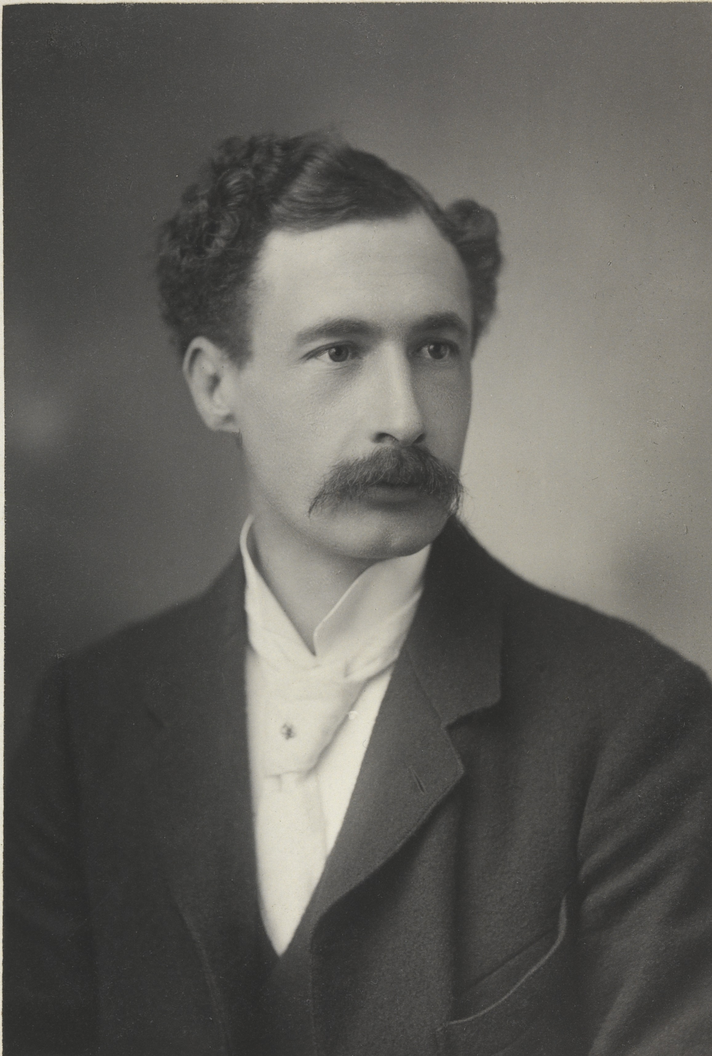 Dr Koetlitz, member of Jackson's expedition to Franz Joseph Land where he met Fridtjof Nansen and Johansen in 1896.